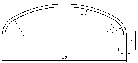 Illustration for "Klöpperboden", "Korbbogenboden" meaning "bumped boiler head" Own work, Borowski, 14th July 2006